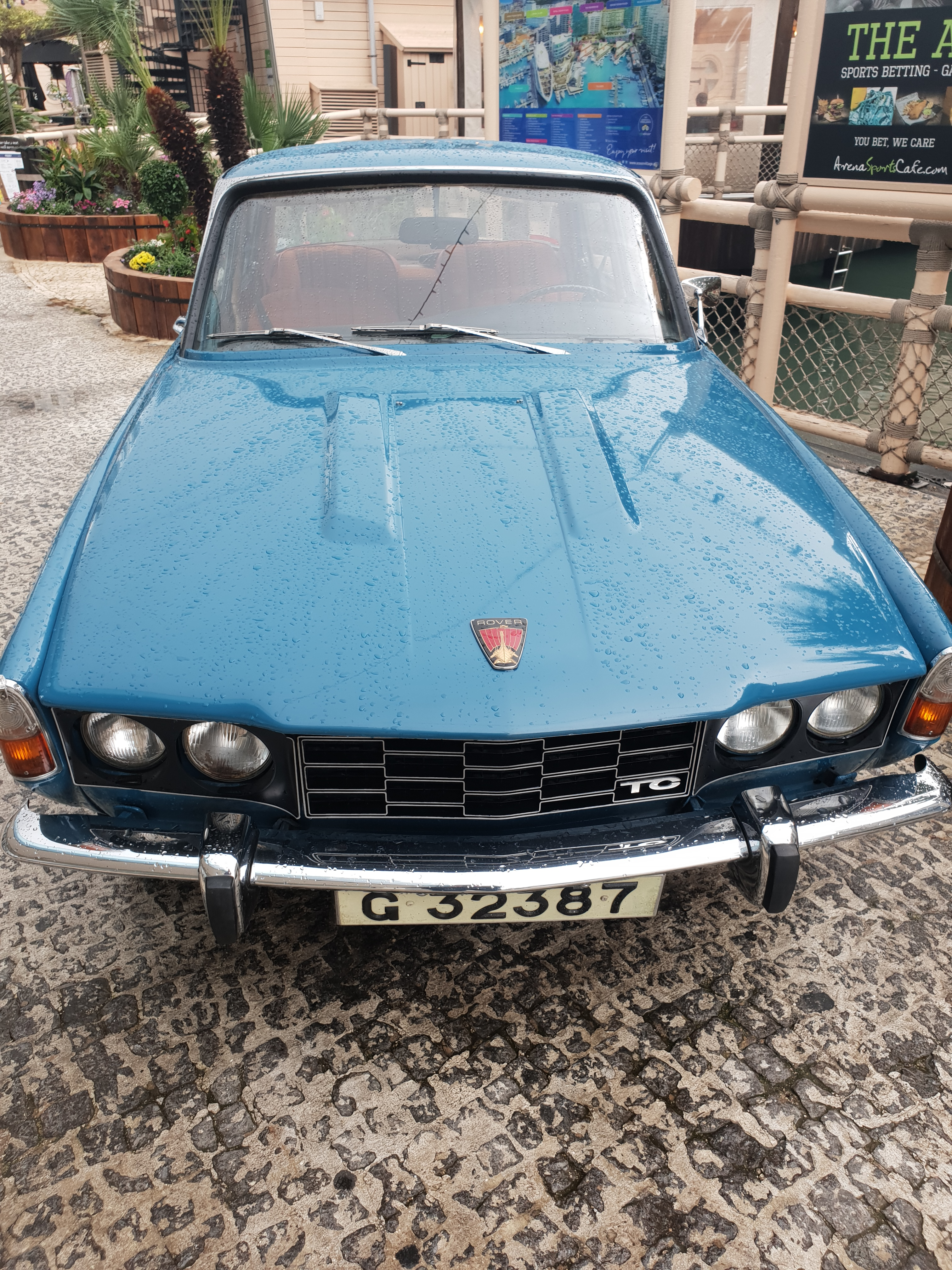 Rover 2200 TC top view